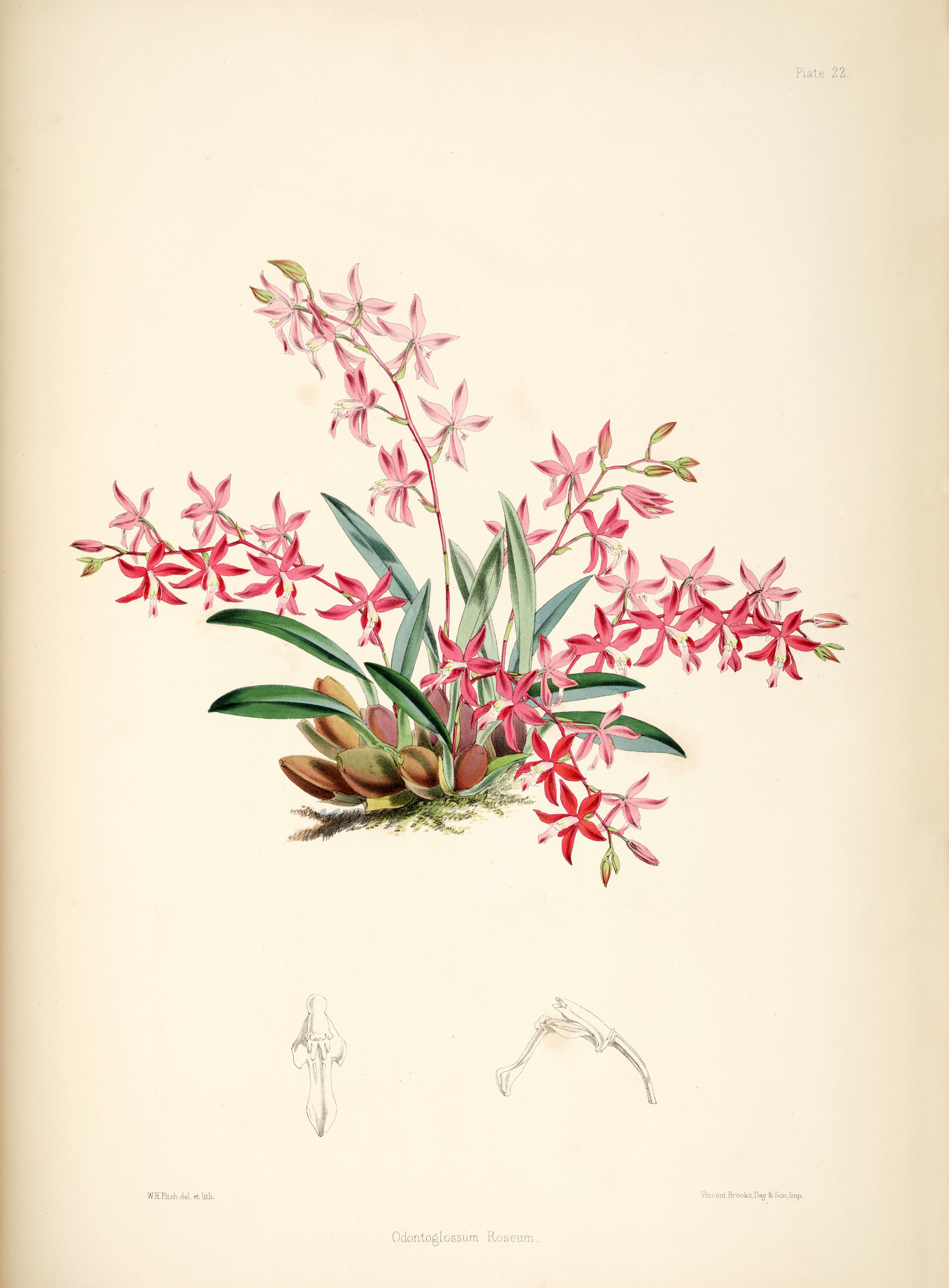 Illustration of Cochlioda rosea (as syn. Odontoglossum roseum)